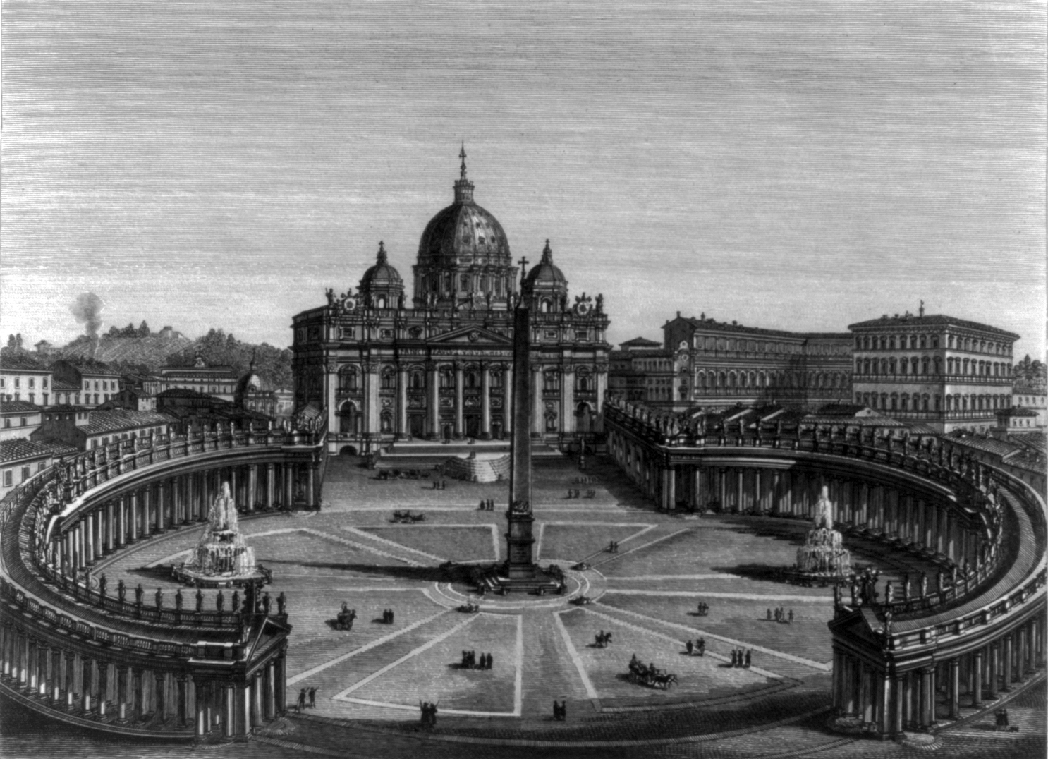 Saint Peter's Square, Vatican City. In: Vedute di Roma, 1832-1841.